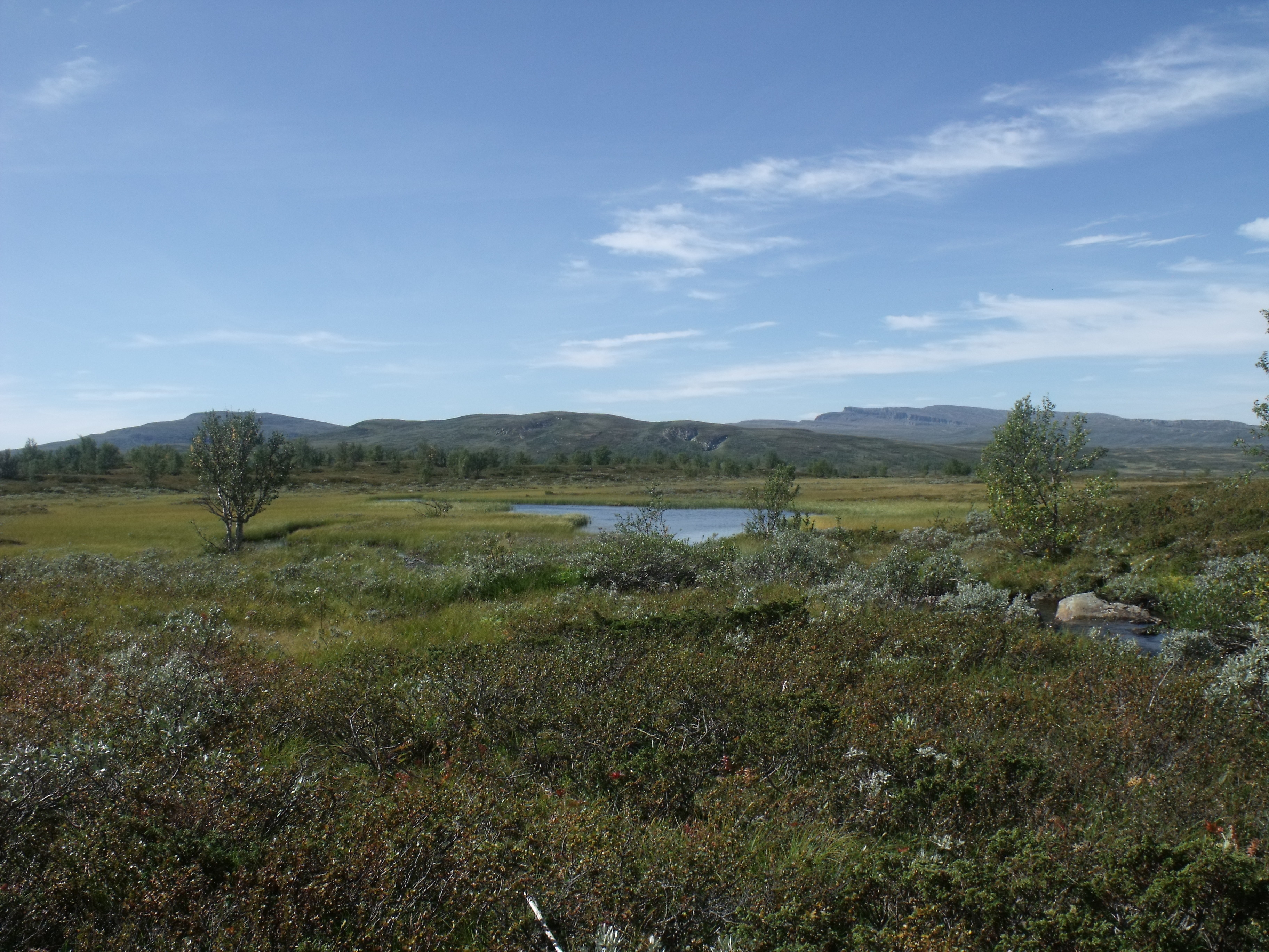 typical landscape of Gausdal Vestfjell in summertimeNorsk bokmål: Gausdal Vestfjell sommerstid